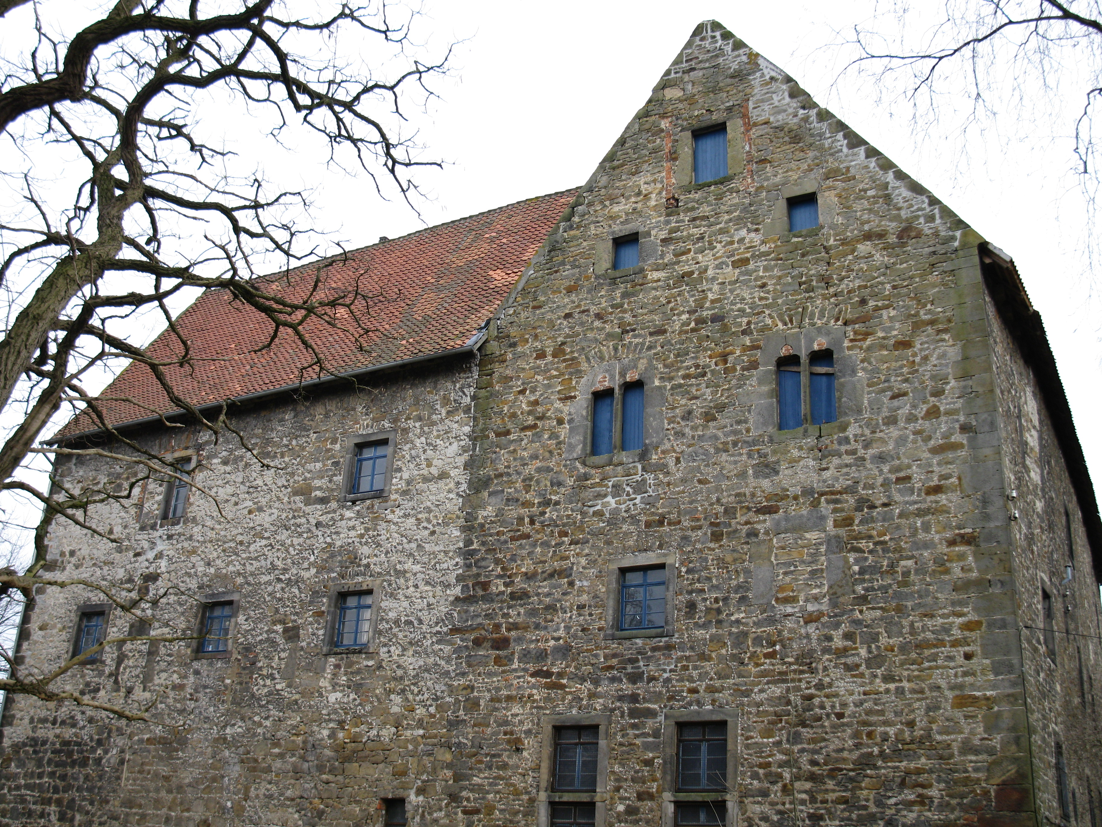 Steuerwald Castle (1310-13), Hildesheim